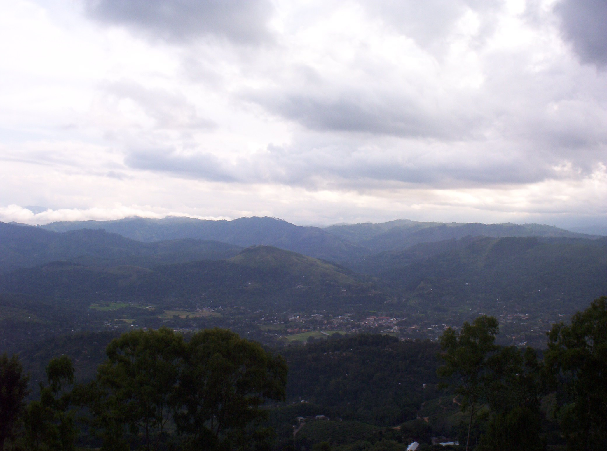 Author/Source: Udara Rathnayake